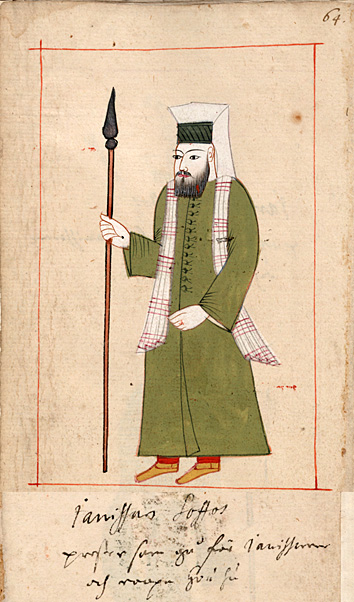 Bektashi dervish — "Ianissar Soffos prester som gå för ianissarer och roopa Hu hu" — In the Sultan's procession, as described by Rålamb, were a group of Bektashi dervishs, whose leader shouted 'God is generous' and they answered Hû! 'He is!'. (Military Pictures from the Ralamb Costume Book, 1657)